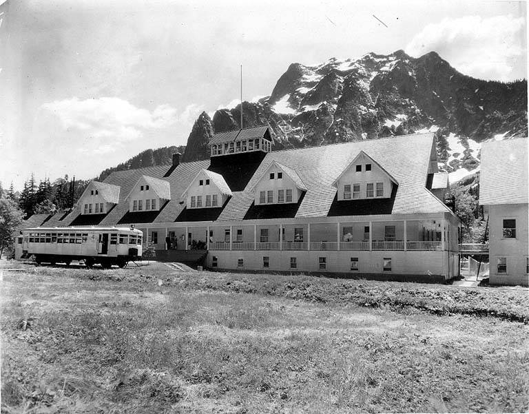 Hartford and Eastern Railway car seen in front of inn. Big Four Inn was built in 1921 by Wyatt and Bethel Rucker. It burned to the ground in 1949. The rail line ran from Lake Stevens to Monte Cristo. The inn had closed by the 1930s and the rail line had been abandoned. PH Coll 1470.20 Subjects (LCSH): Big Four Inn (Snohomish County, Wash.); Hartford and Eastern Railway; Hotels--Washington (State)--Snohomish County